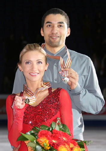 Aliona Savchenko & Robin Szolkowy during the pairs medals ceremony at the 2009 European Championships.